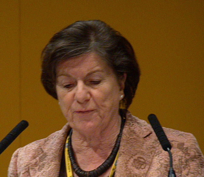 Baroness Tonge addressing a Liberal Democrat conference in the ACC, Liverpool